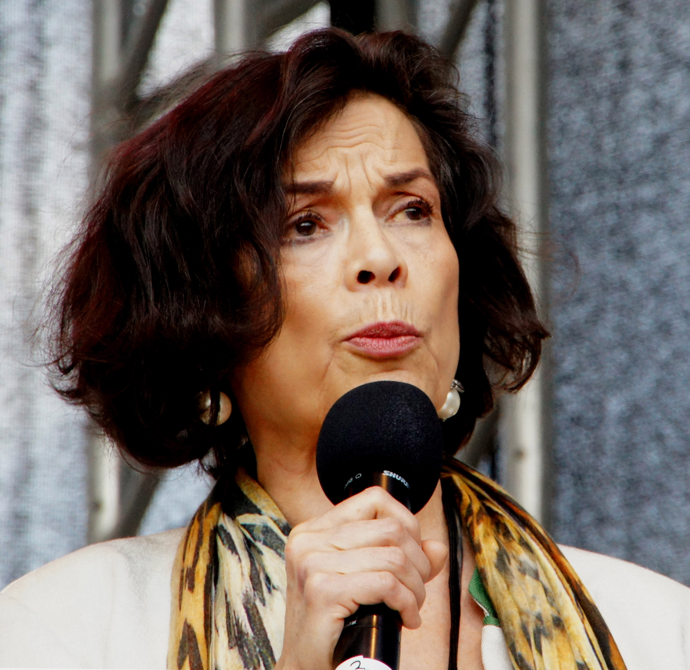 Bianca Jagger talking on human rights in Tibet.